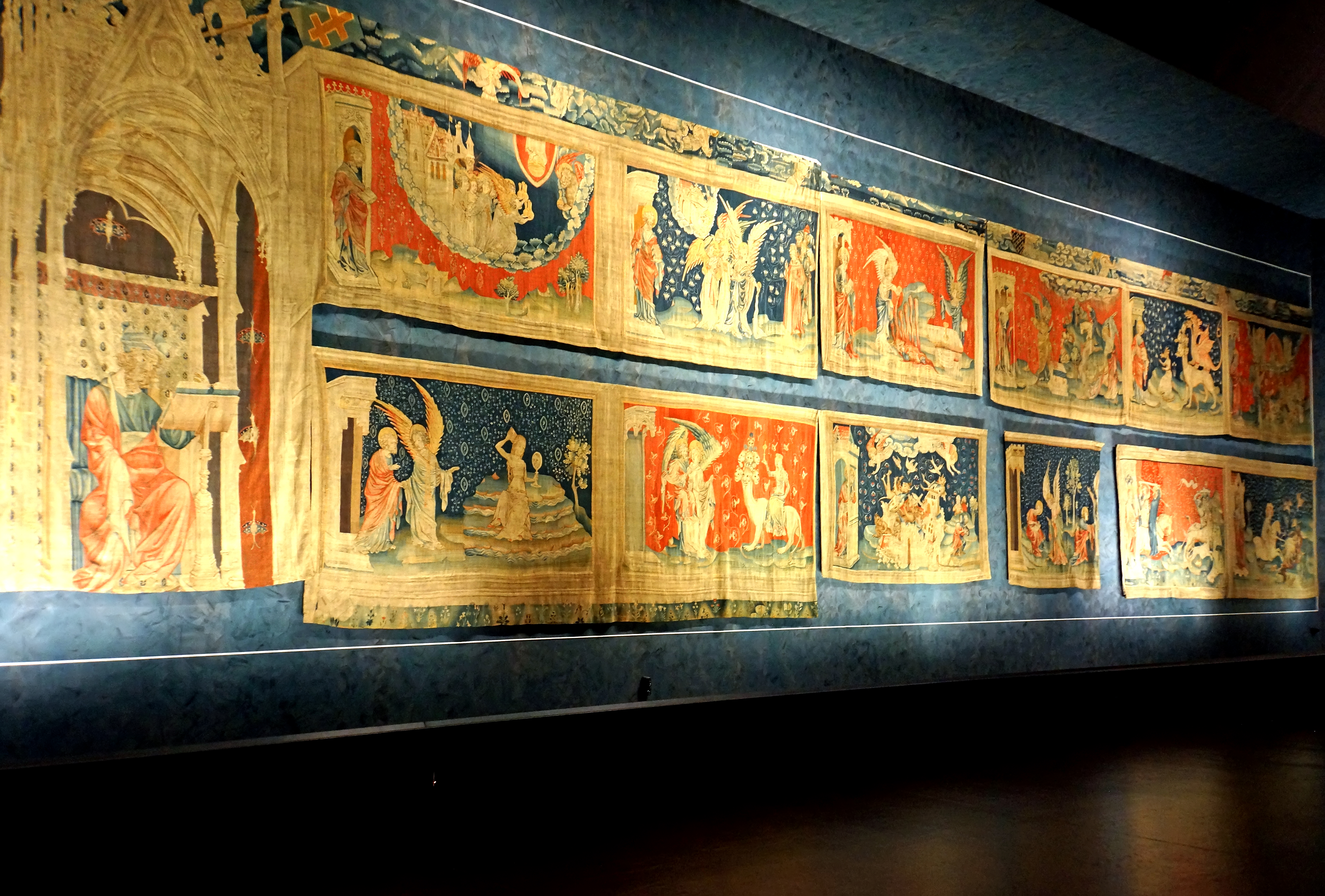 PLEASE, NO invitations or self promotions, THEY WILL BE DELETED. My photos are FREE to use, just give me credit and it would be nice if you let me know, thanks. The Apocalypse tapestry is the oldest surviving set of tapestries of this size, 100m (328ft). It was commissioned in 1375 by Louis I, Duke of Anjou and brother of King Charles V. The tapestry took seven years to make which is quick for a work of this size. It is made entirely of wool and originally comprised six tapestries measuring 6 metres (19.7ft) high and 23 metres (75.5ft) long. Each piece starts with a major figure followed by two rows of seven scenes between a strip of sky and strip of earth. These pictures are only a small part of the tapestry.